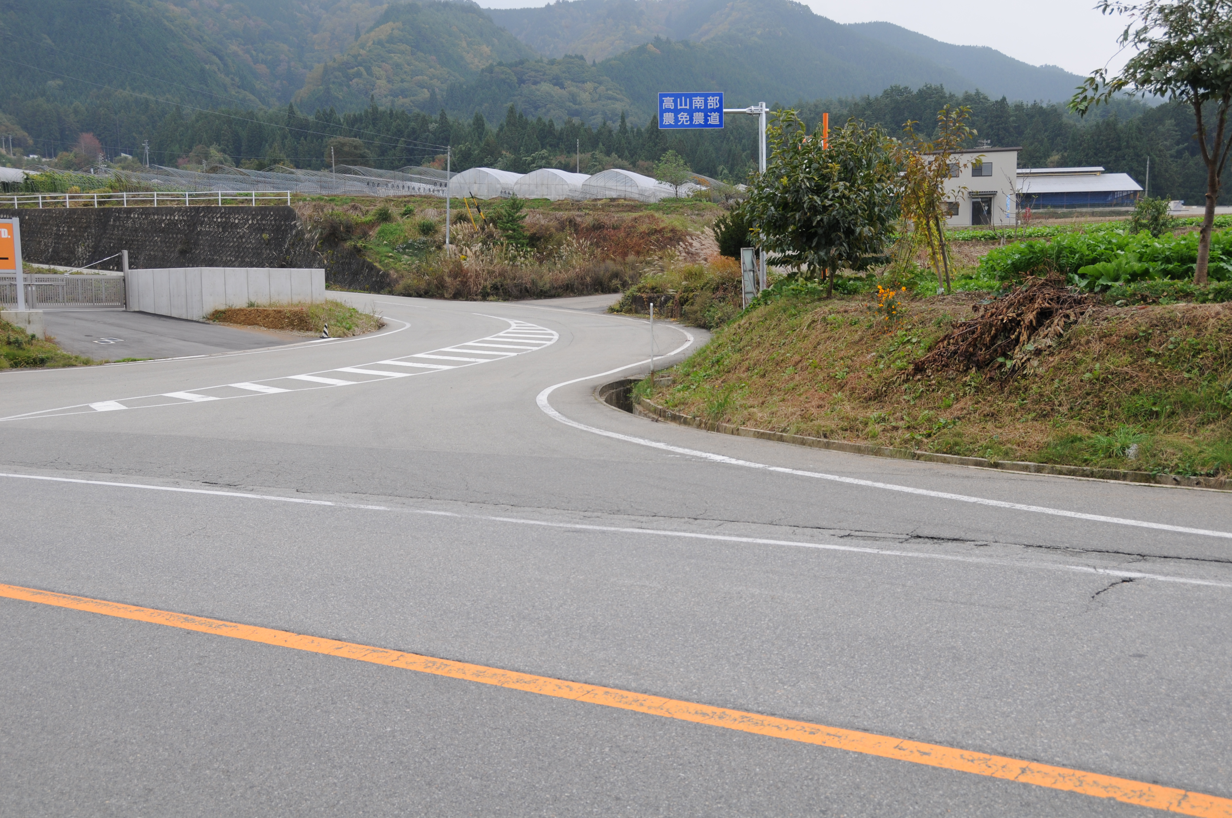 Public Fields' Road in South of Takayama